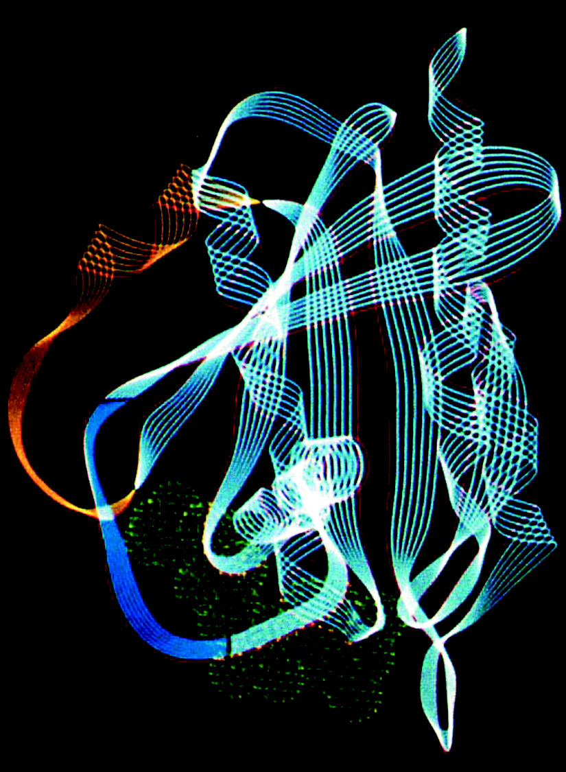 Scheme 3D structure of protein.